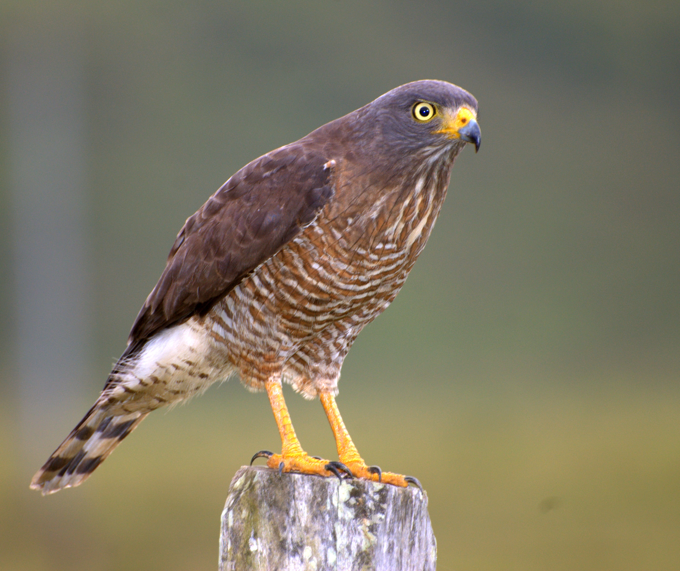 A Roadside Hawk (Buteo magnirostris)